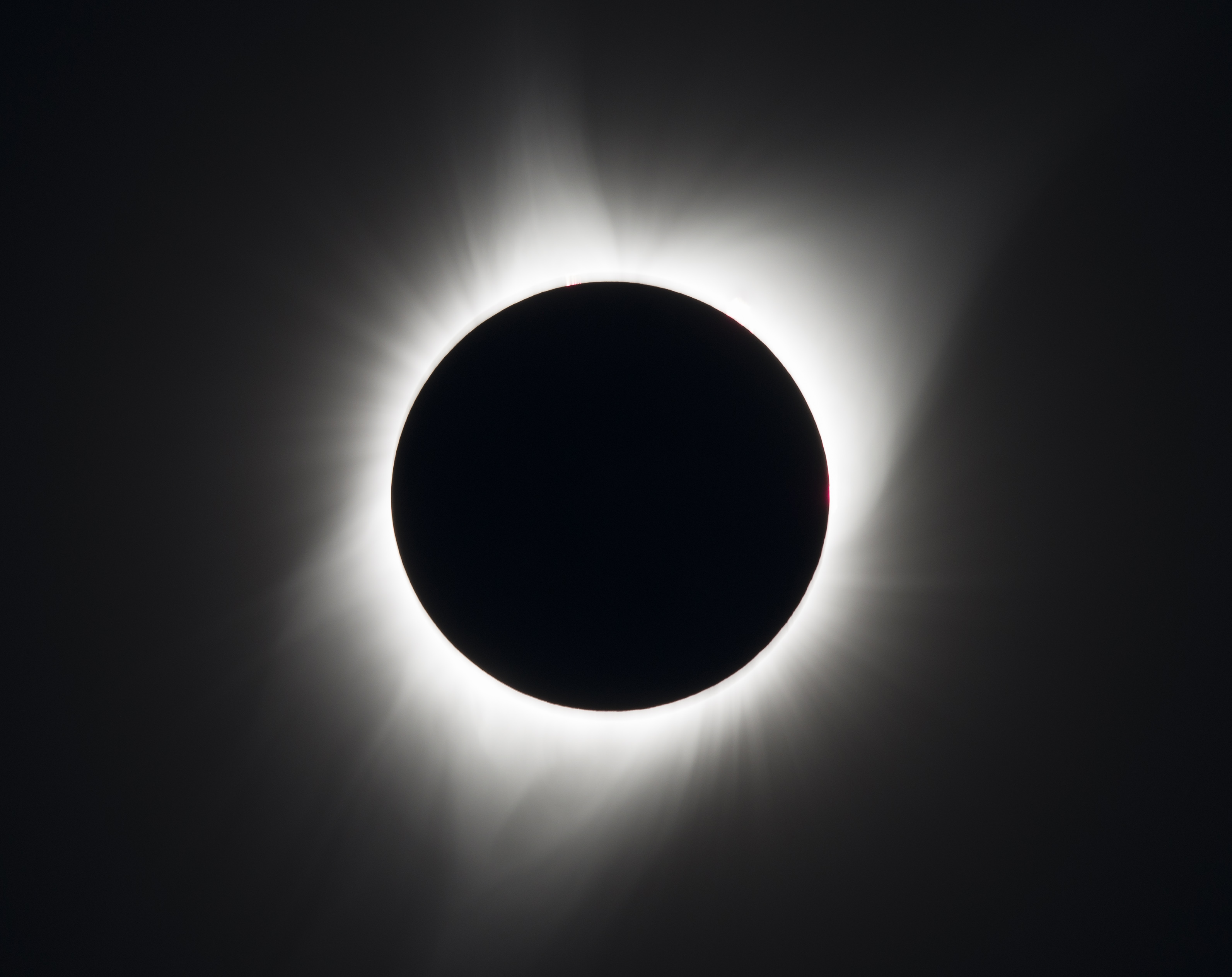 A total solar eclipse is seen on Monday, August 21, 2017 above Madras, Oregon. A total solar eclipse swept across a narrow portion of the contiguous United States from Lincoln Beach, Oregon to Charleston, South Carolina. A partial solar eclipse was visible across the entire North American continent along with parts of South America, Africa, and Europe. Photo Credit: (NASA/Aubrey Gemignani)